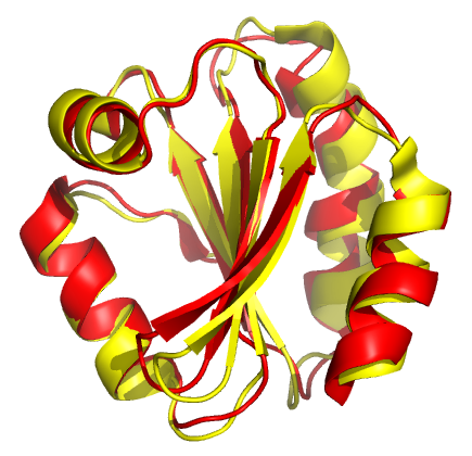 Structural alignment of thioredoxins from humans and the fruit fly Drosophila melanogaster. The proteins are shown as ribbons, with the human protein in red, and the fly protein in yellow. Generated in PyMol from PDB 3TRX and 1XWC. Based on Image:Alignment_of_thioredoxins.png by Tim Vickers.